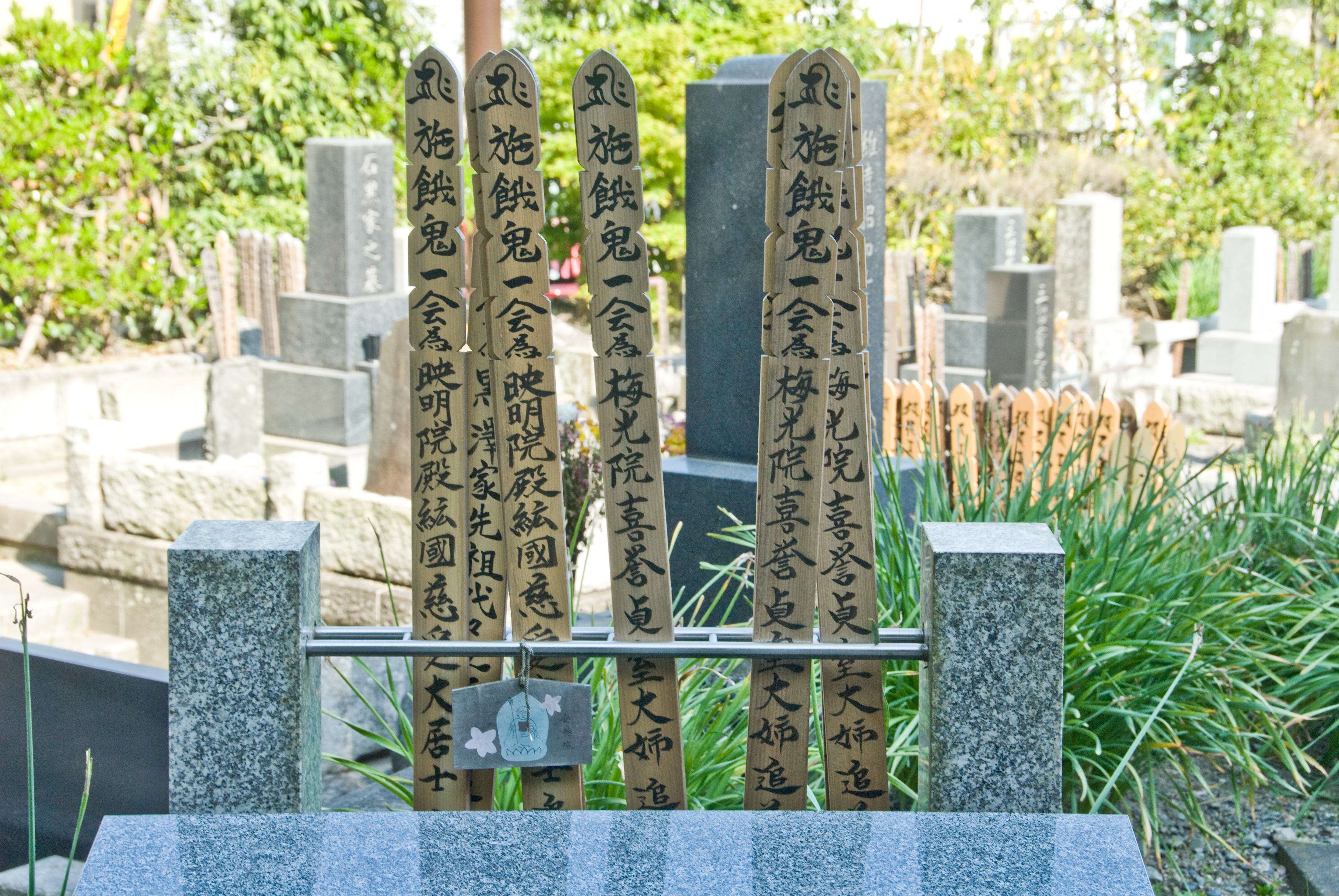 Sotoba at Kurosawa Akira(黒澤明)'s grave with his posthumous name (Eimyōinden or Eimeiinden - 映明院殿紘國慈愛大居士)